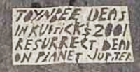 Toynbee tile photographed a block or so from the White House by User:Erifnam in 2002.